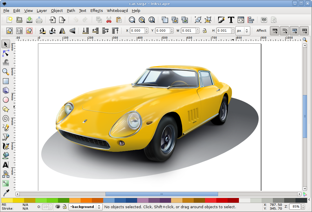 Screenshot of Inkscape, version 0.46 on a GNU/Linux distribution.